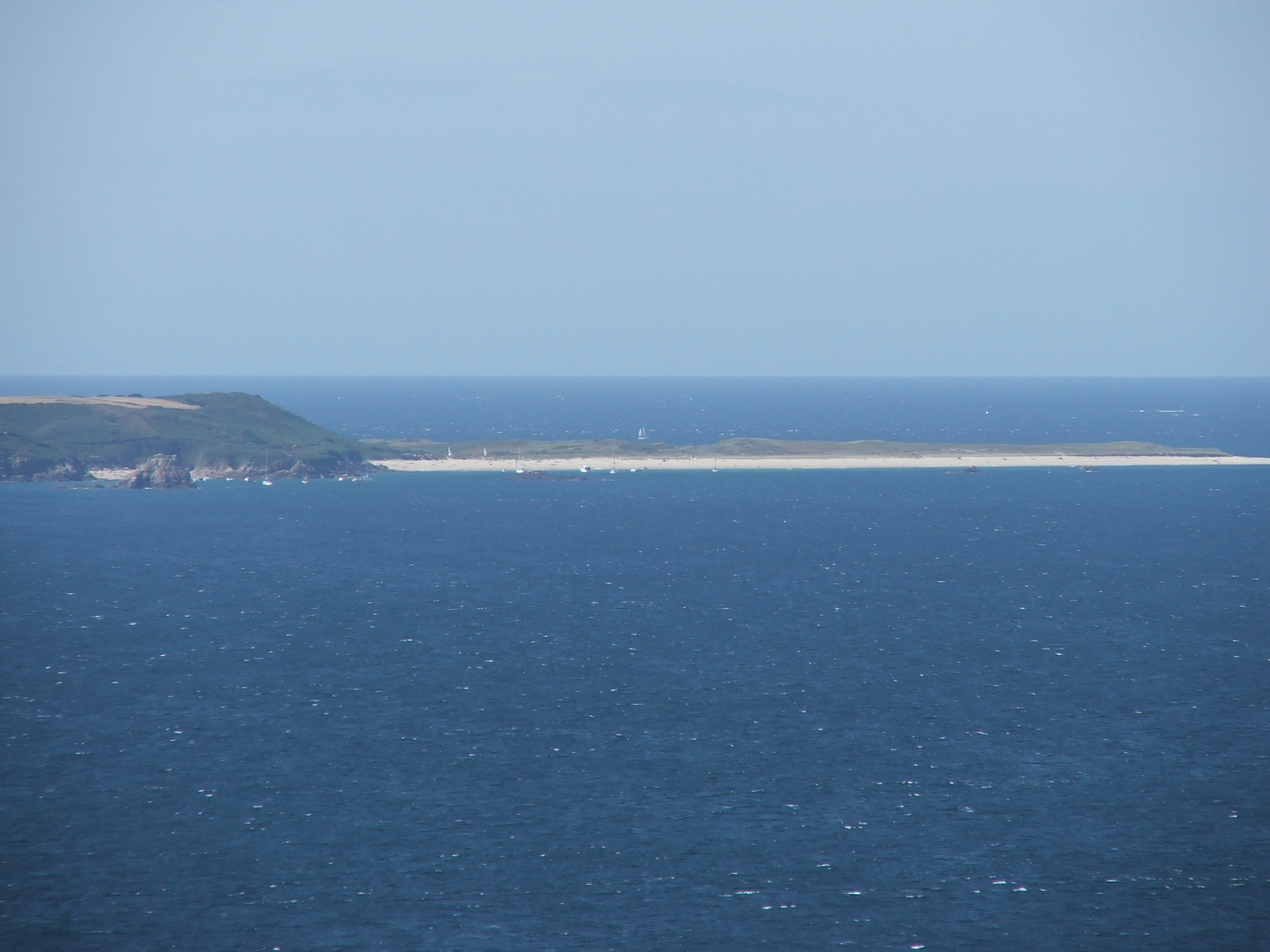 Viewing of Herm Island from Sark Island